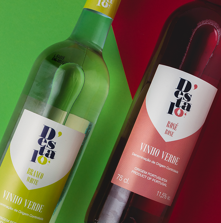 Example of a "Denominação de Origem Controlada" or "Denomination of Controlled Origin" wine bottle